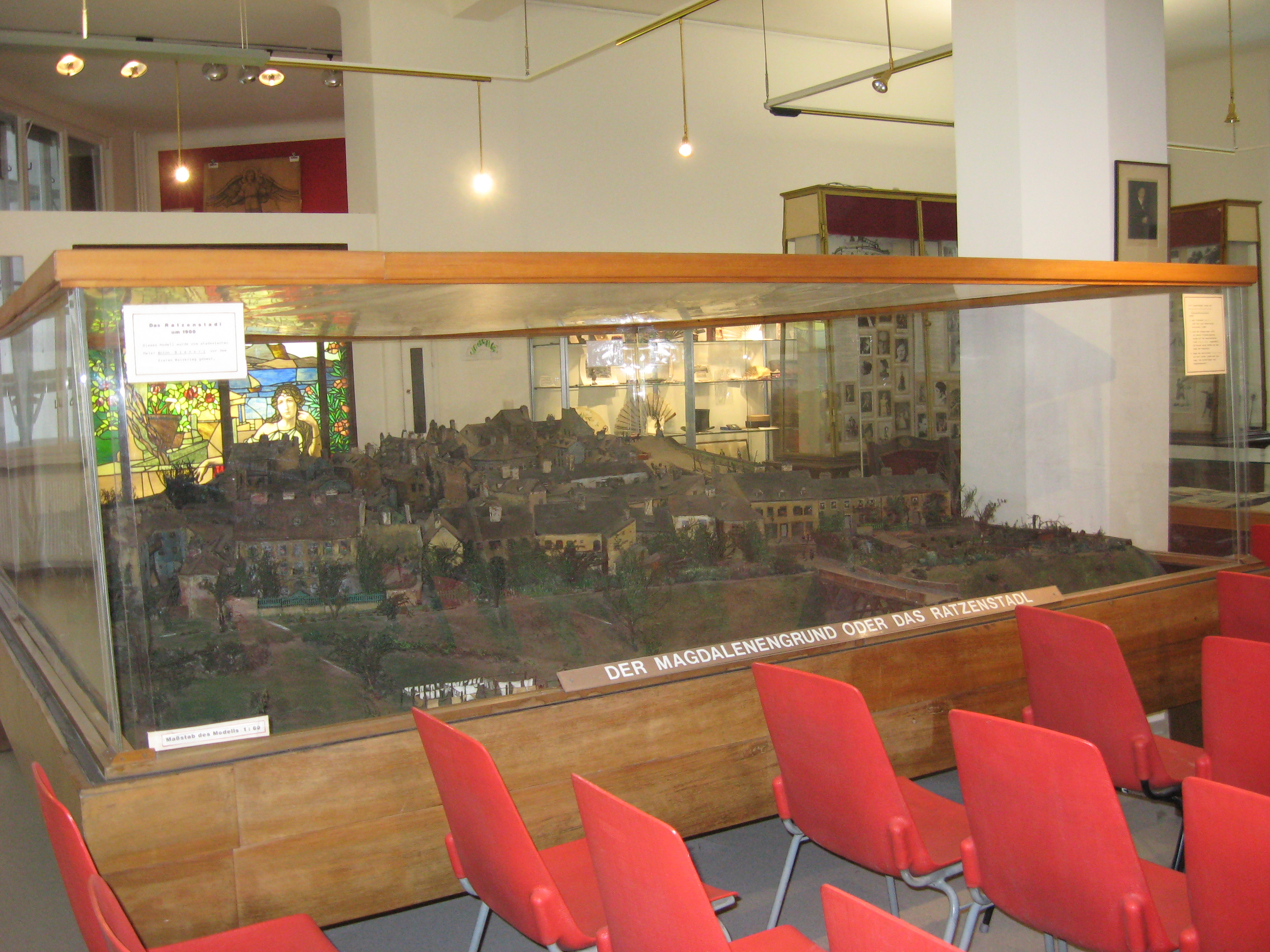 Model of old Ratzenstadl or Magdalenengrund, Vienna